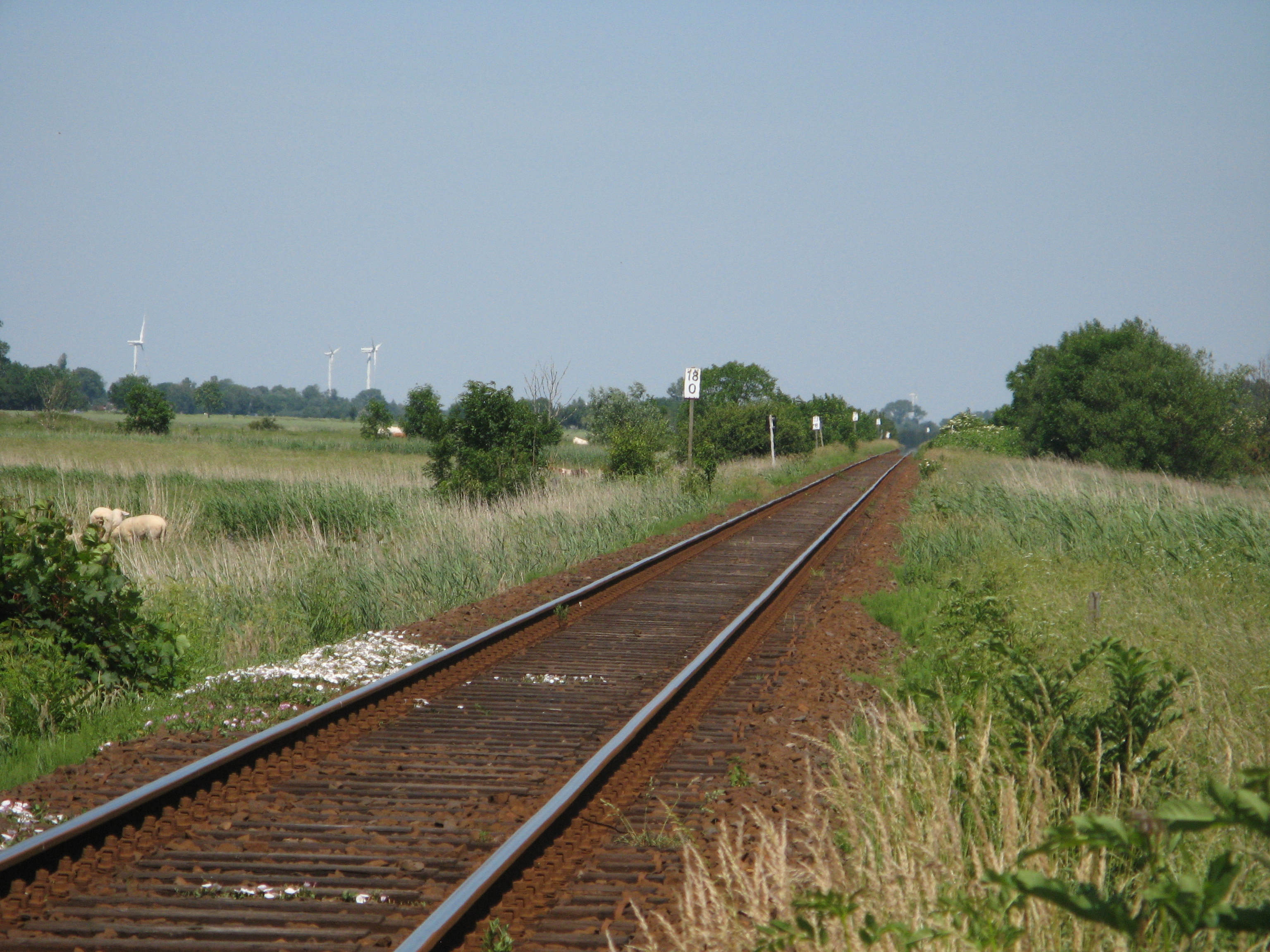 railwaytrack bei Oldenswort